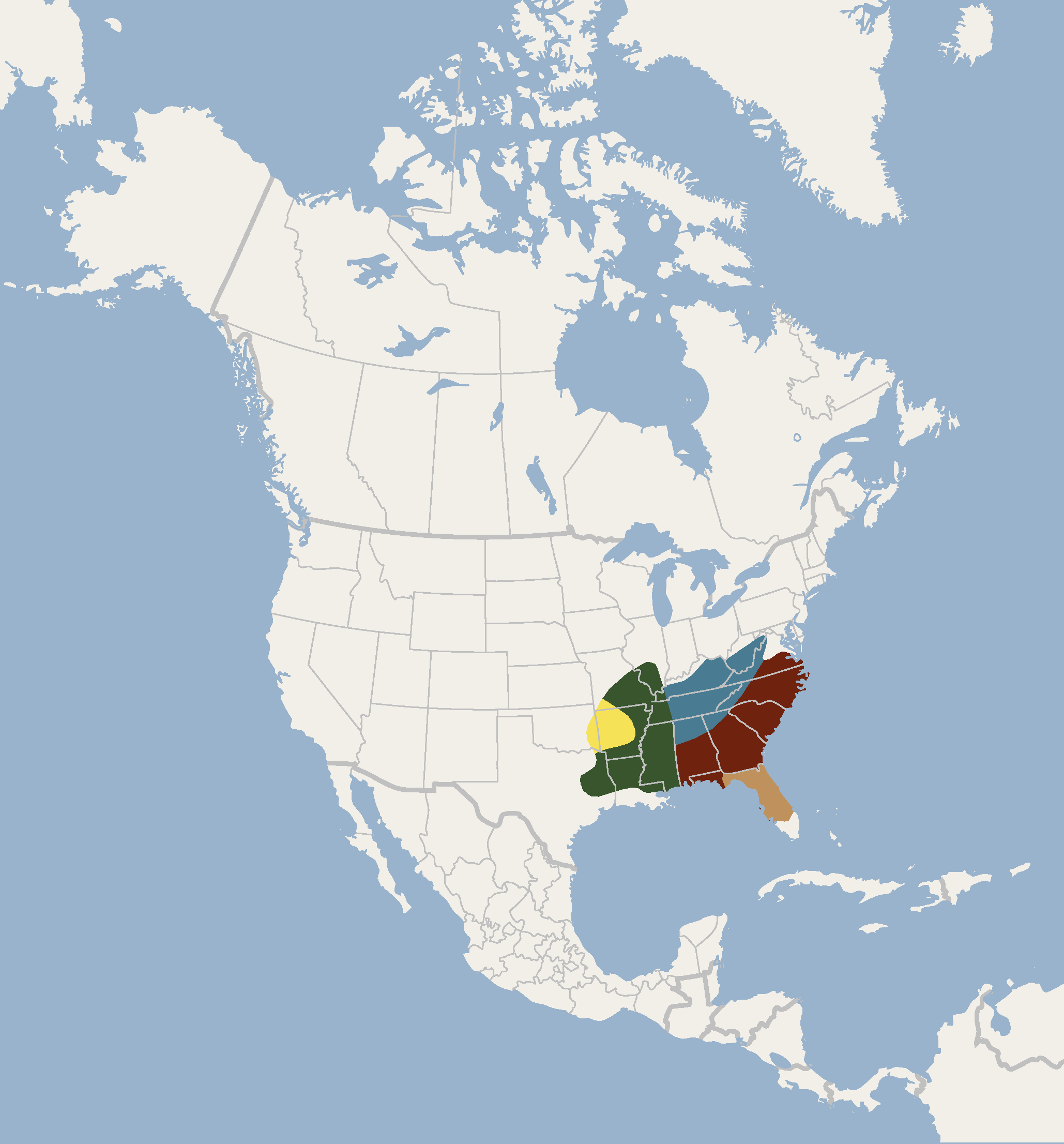 According to Hall, 1981